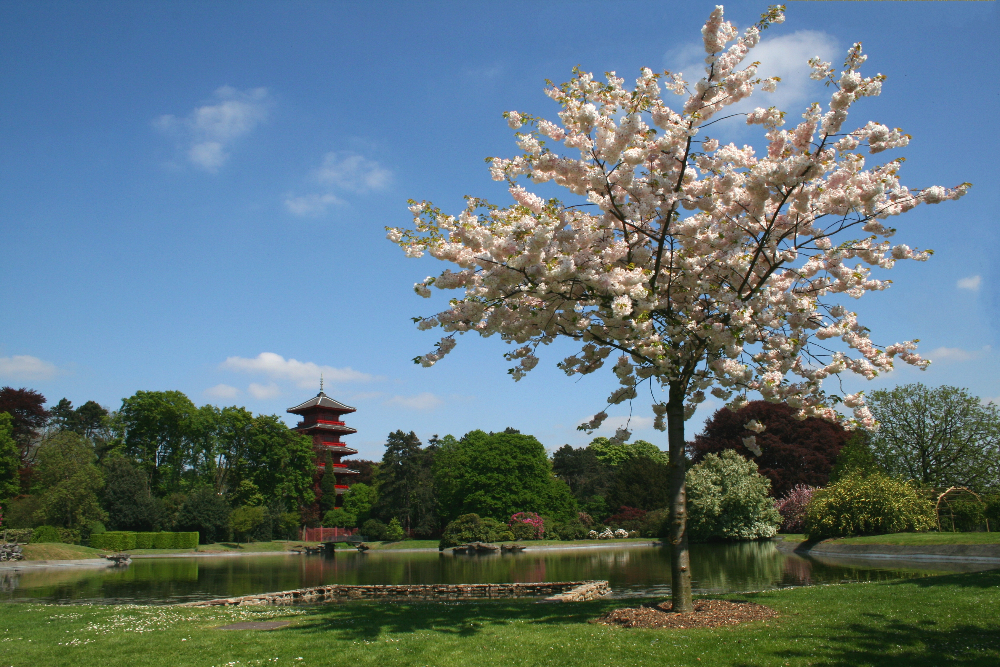 Laeken (Belgium), gardens of the Royal Castle and the Japanese tower.